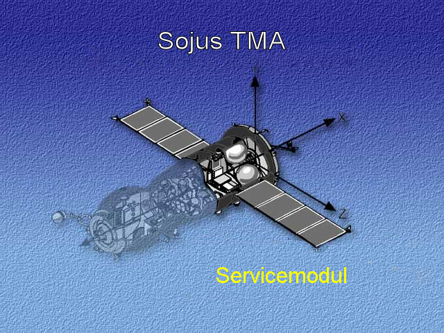 This graphic highlights the Soyuz spacecraft's Instrumentation/Propulsion Module (with german labeling).